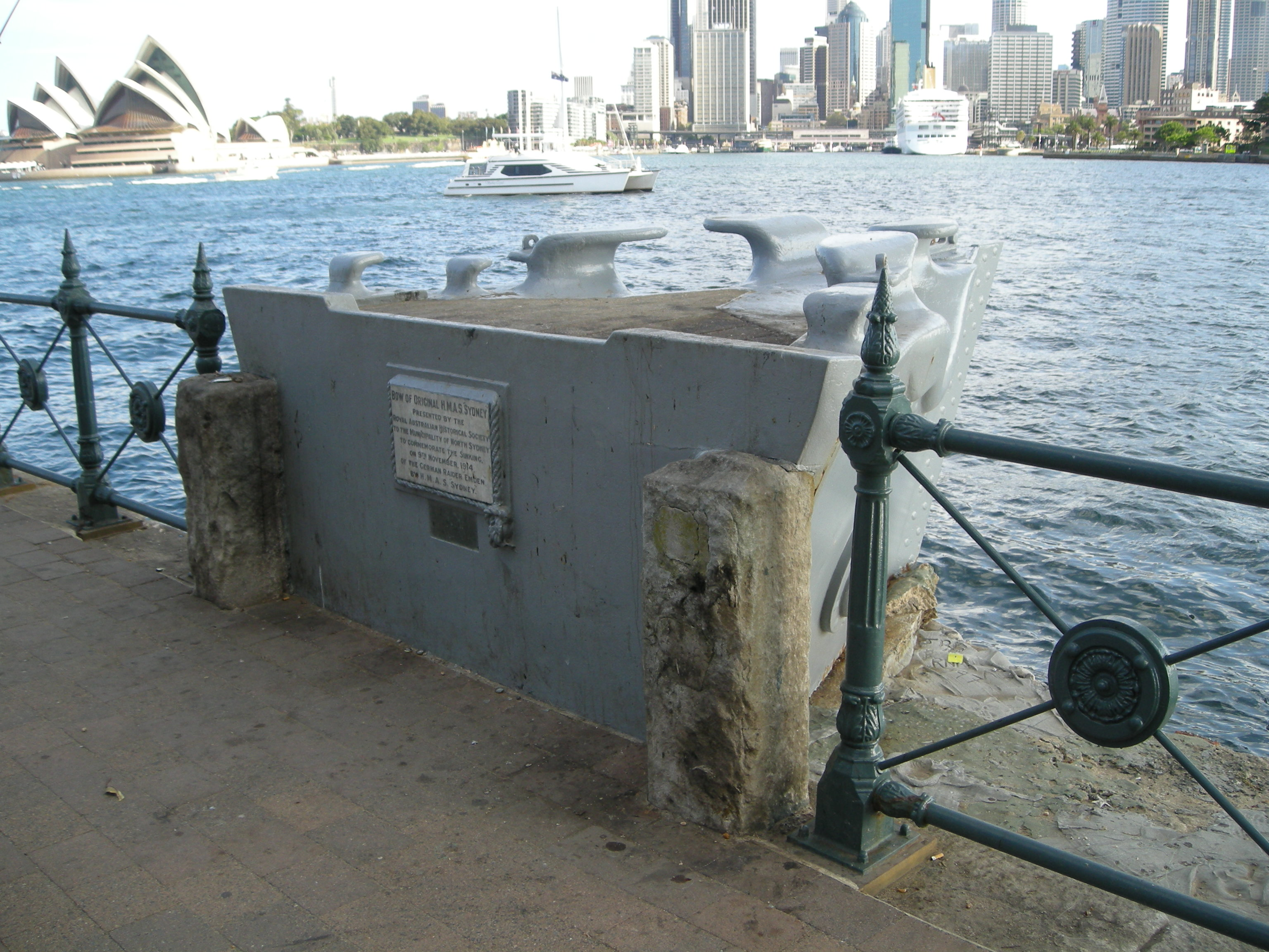 Photograph of bow and memorial plaque, of the original HMAS Sydney, set into the sea wall at Milson's Point, Sydney.